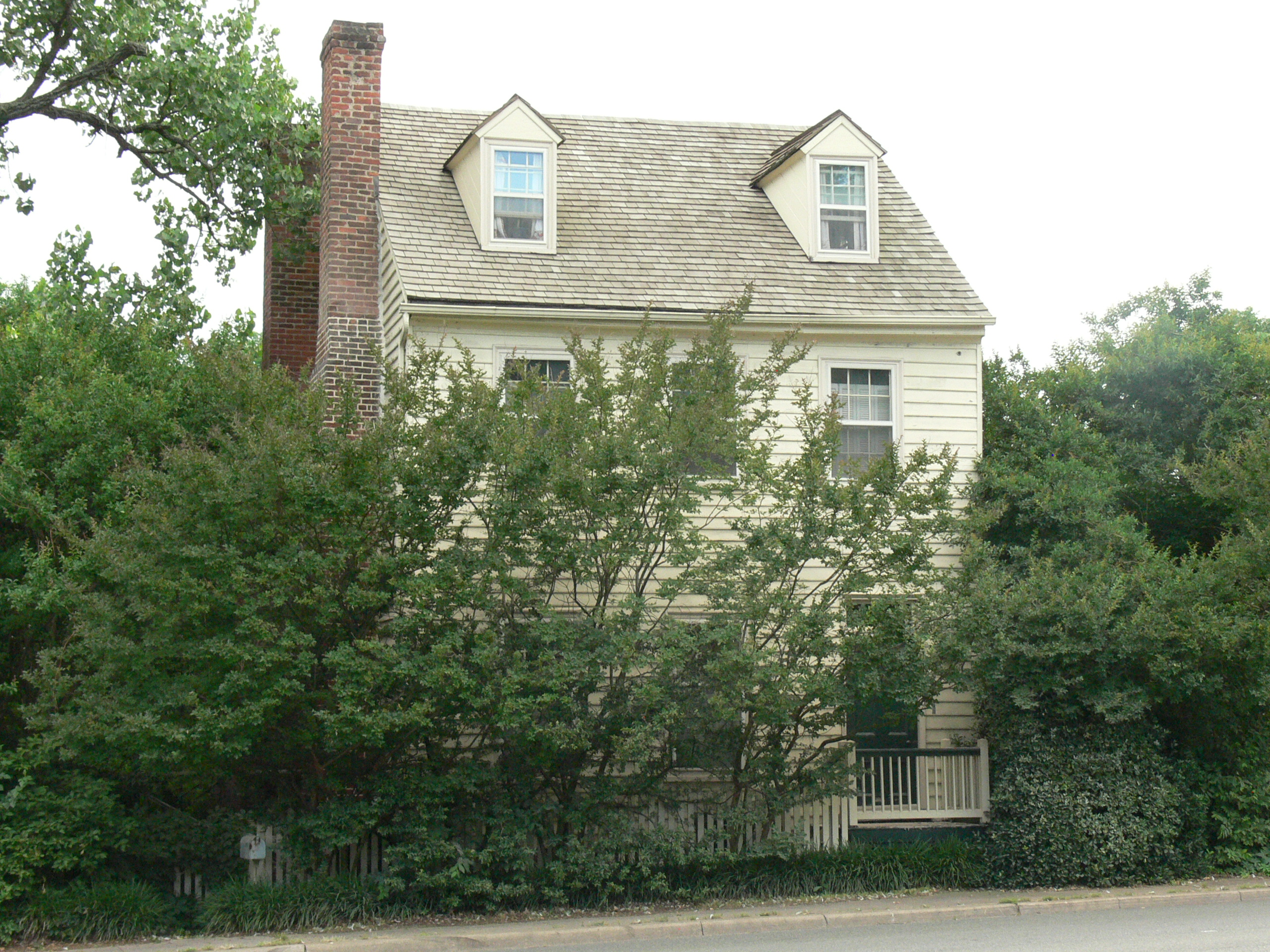 The Captain John Woodward House, Richmond, Virginia. With the first portions built in the late 18th century, the house, on the National Register of Historic Places, is one of the oldest wooden structures in the city.